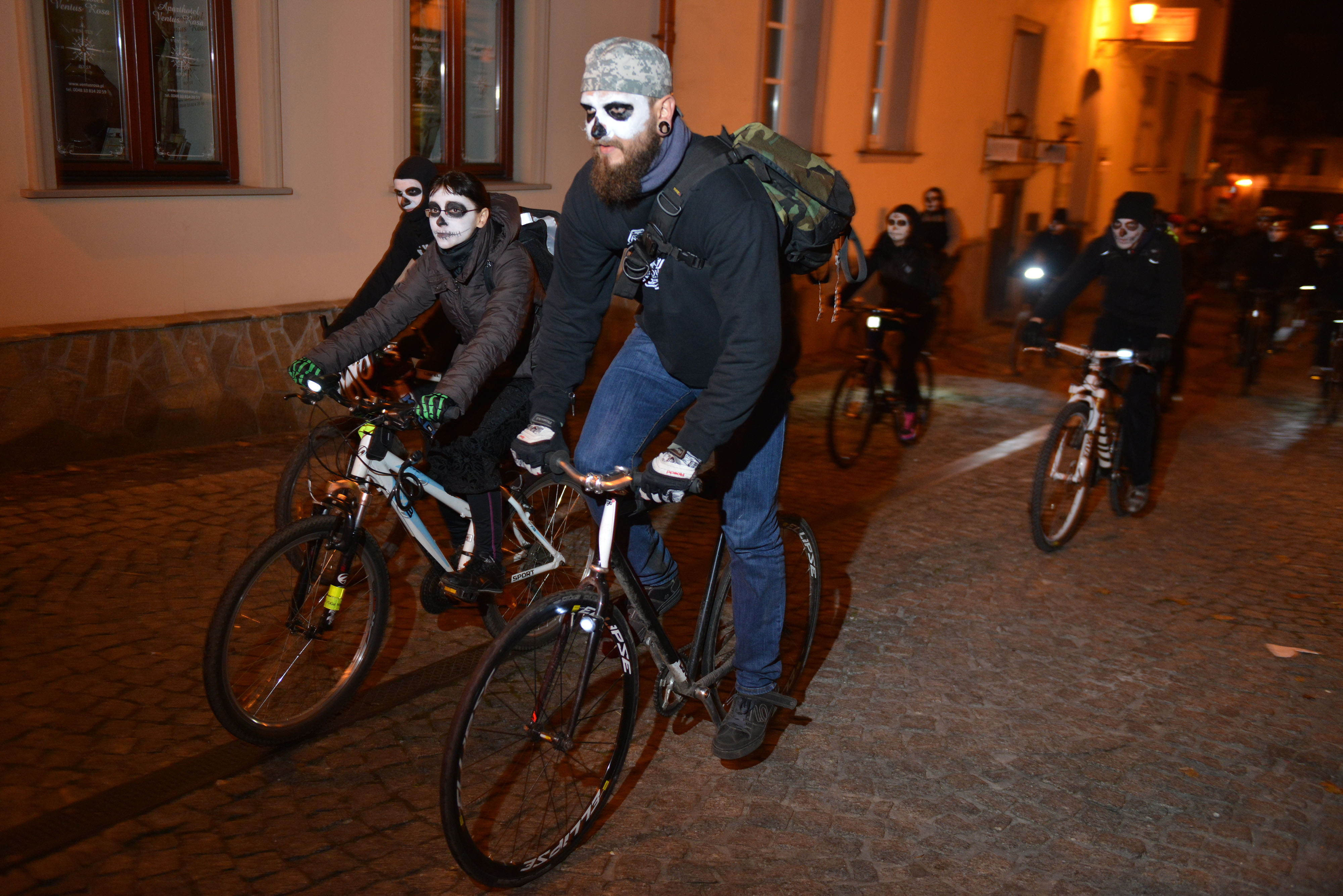 Alleycat "Santa muerte con Bielsko", All Saints' Day theme race. Bielsko-Biala, Poland 2014